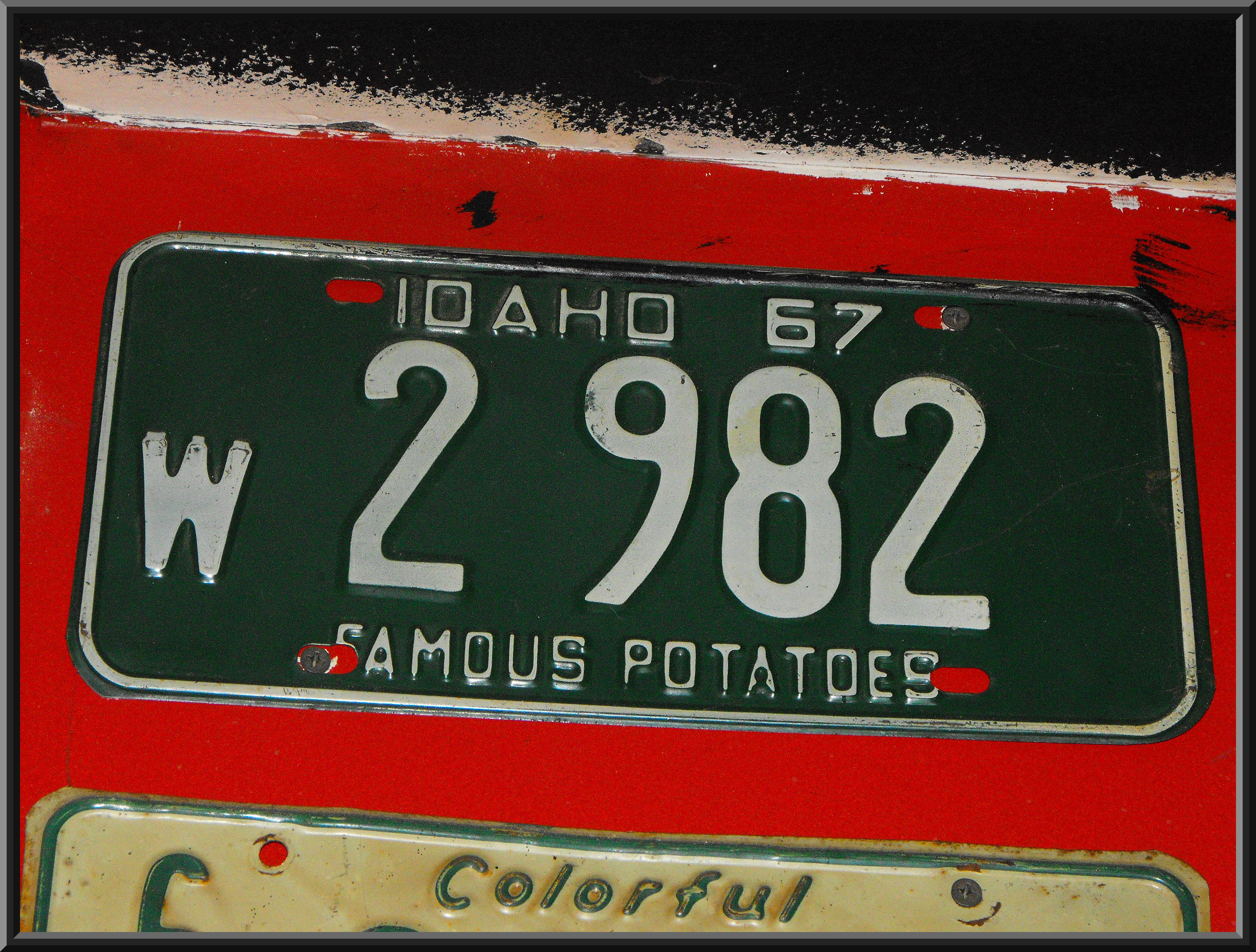 Trash Bar Licence Plate Collection